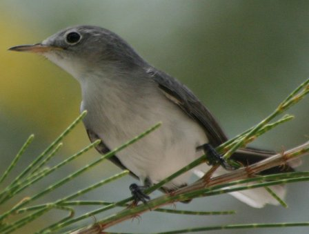 I, Daniel Berganza took this picture in the Florida Keys